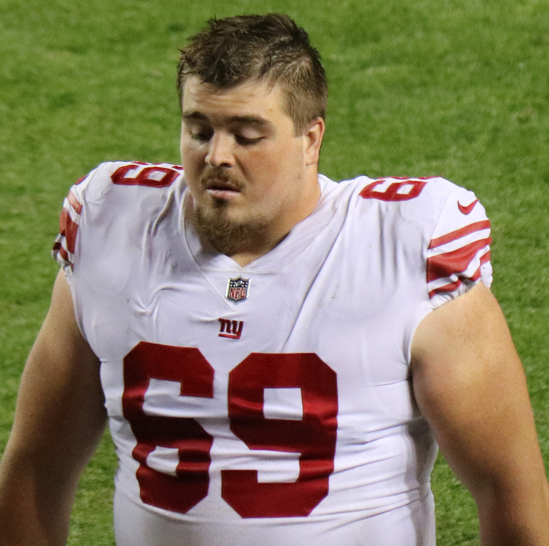 Brett Jones, a player on the National Football League.